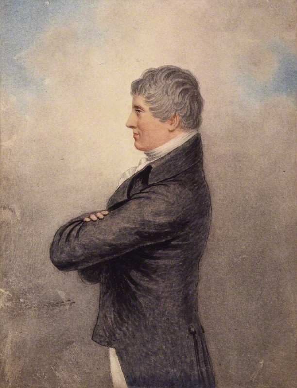 Portrait (c. 1810), watercolour, of Henry Hunt (1773–1835) by Adam Buck (1759–1833)